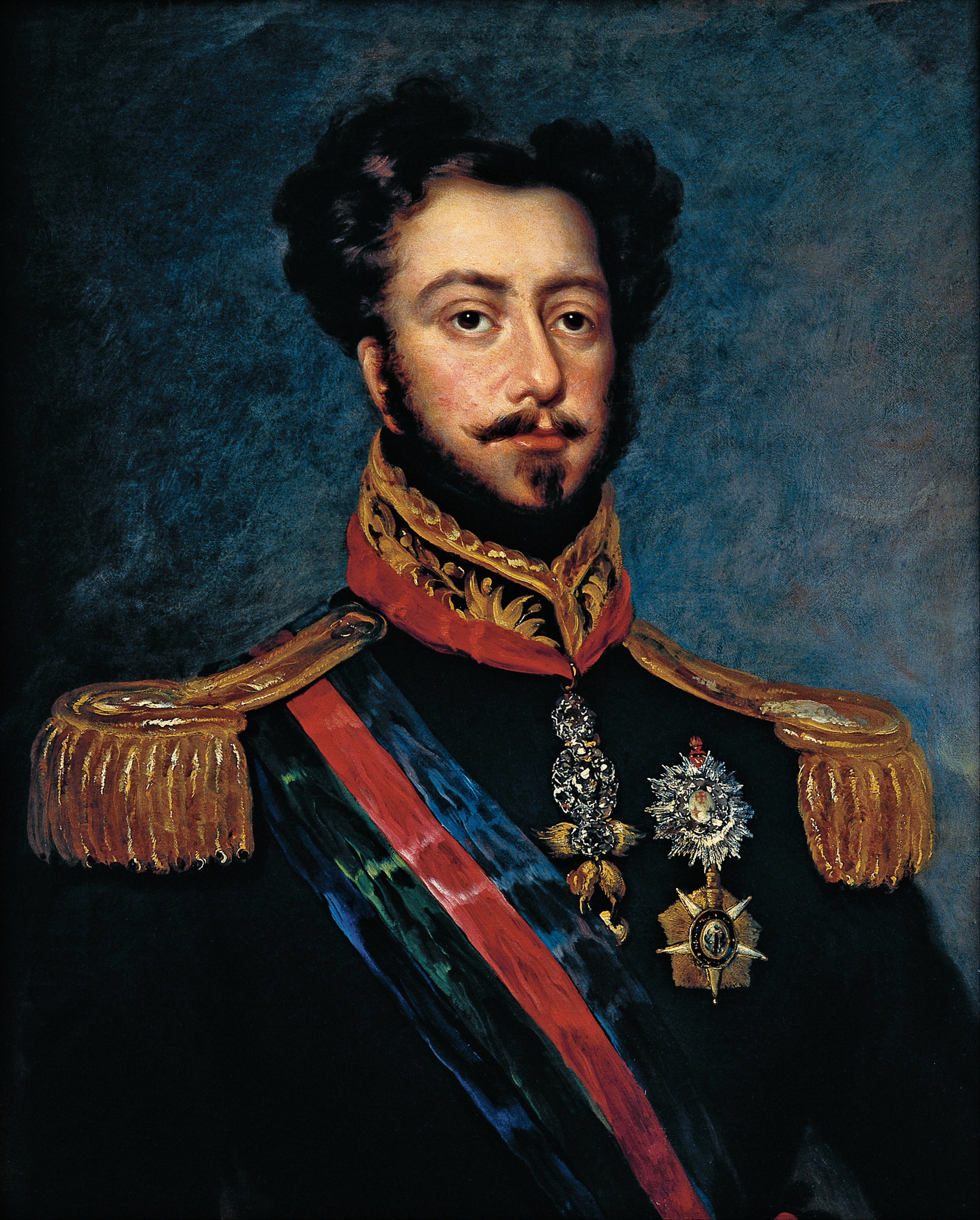 Modified version of Google Art Project file to imitate the photographs at here and here.